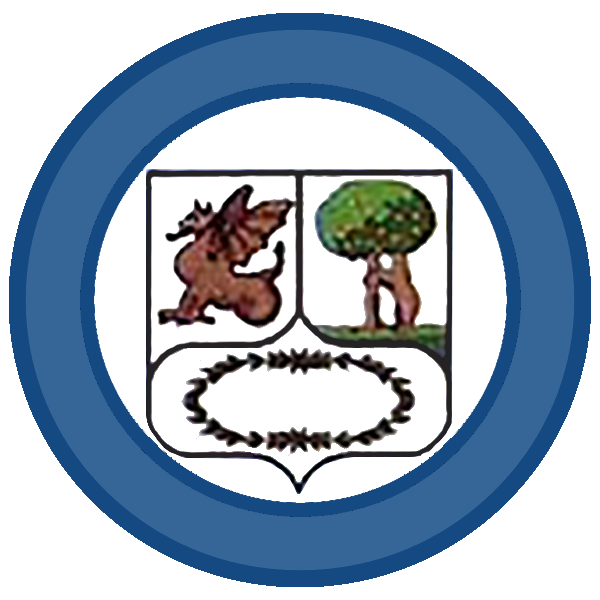 Madrid's football clubs crest until 1920